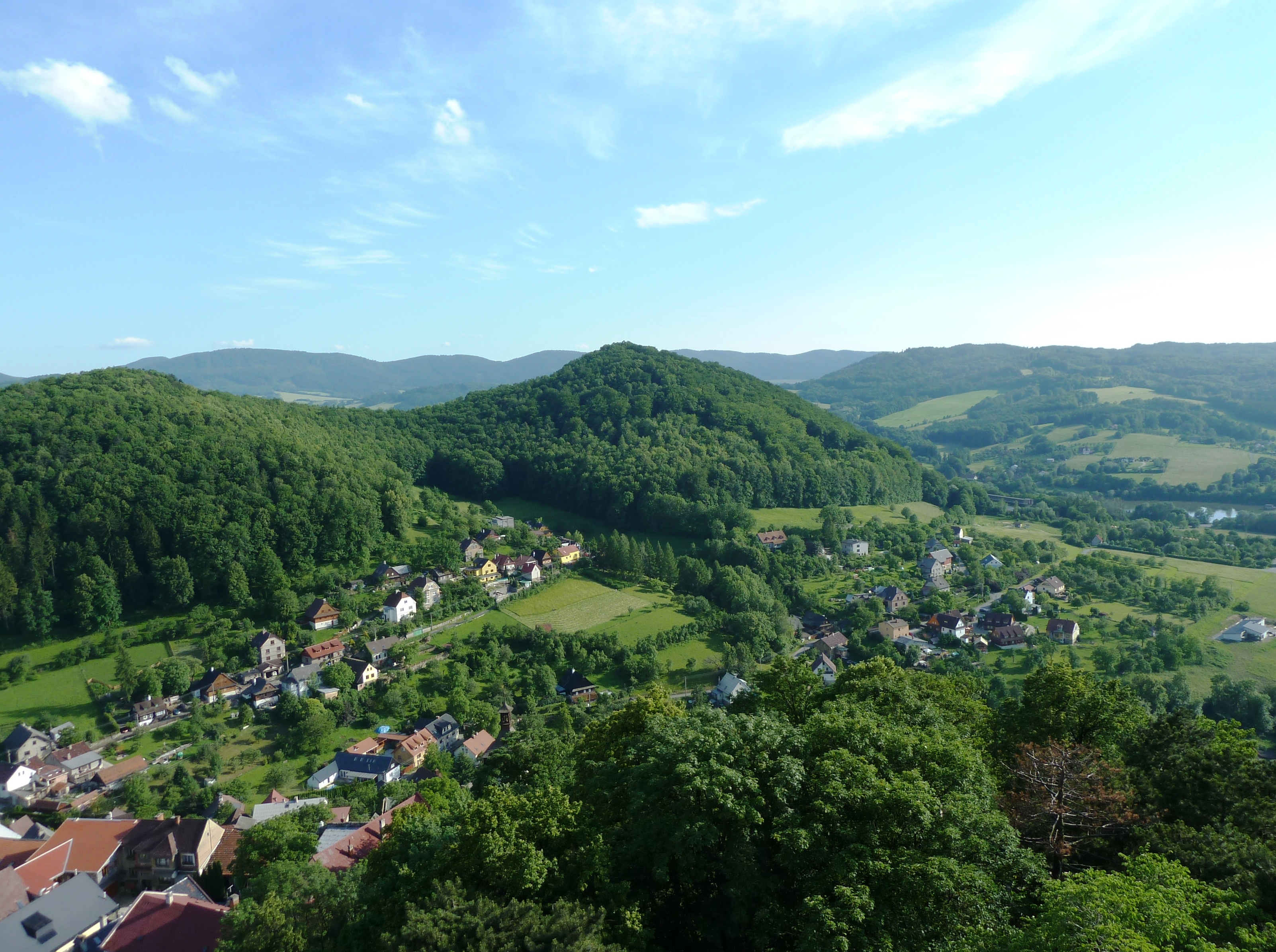 The hill Kotouč in town Štramberk (north Moravia, Czech Republic). View from the Štramberk Castle.